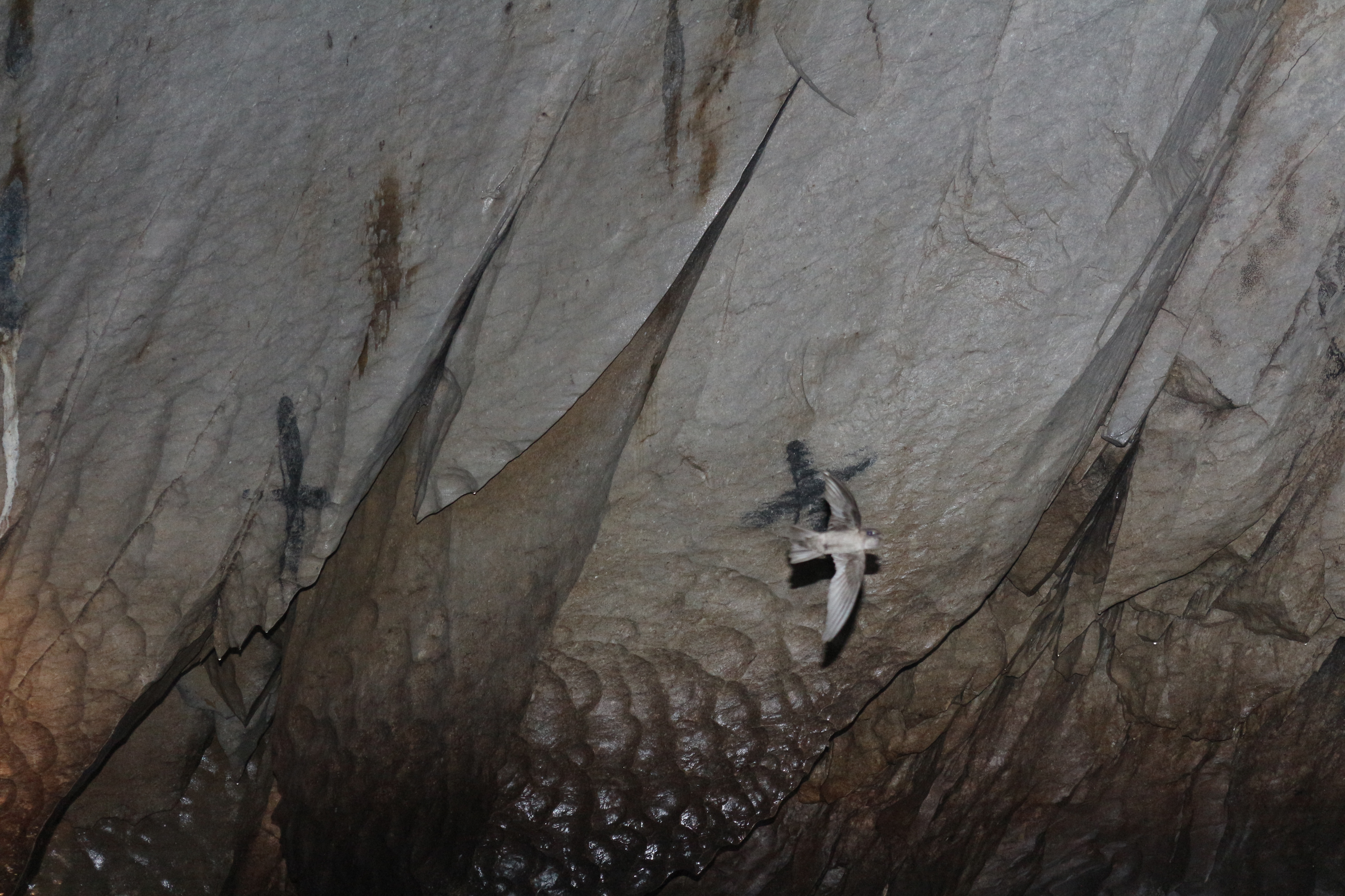 A Palawan swiftlet hunts in complete darkness inside the Puerto Princesa subterranean river cave. Photo taken about 1.5 km inside the underground river cave, in complete darkness